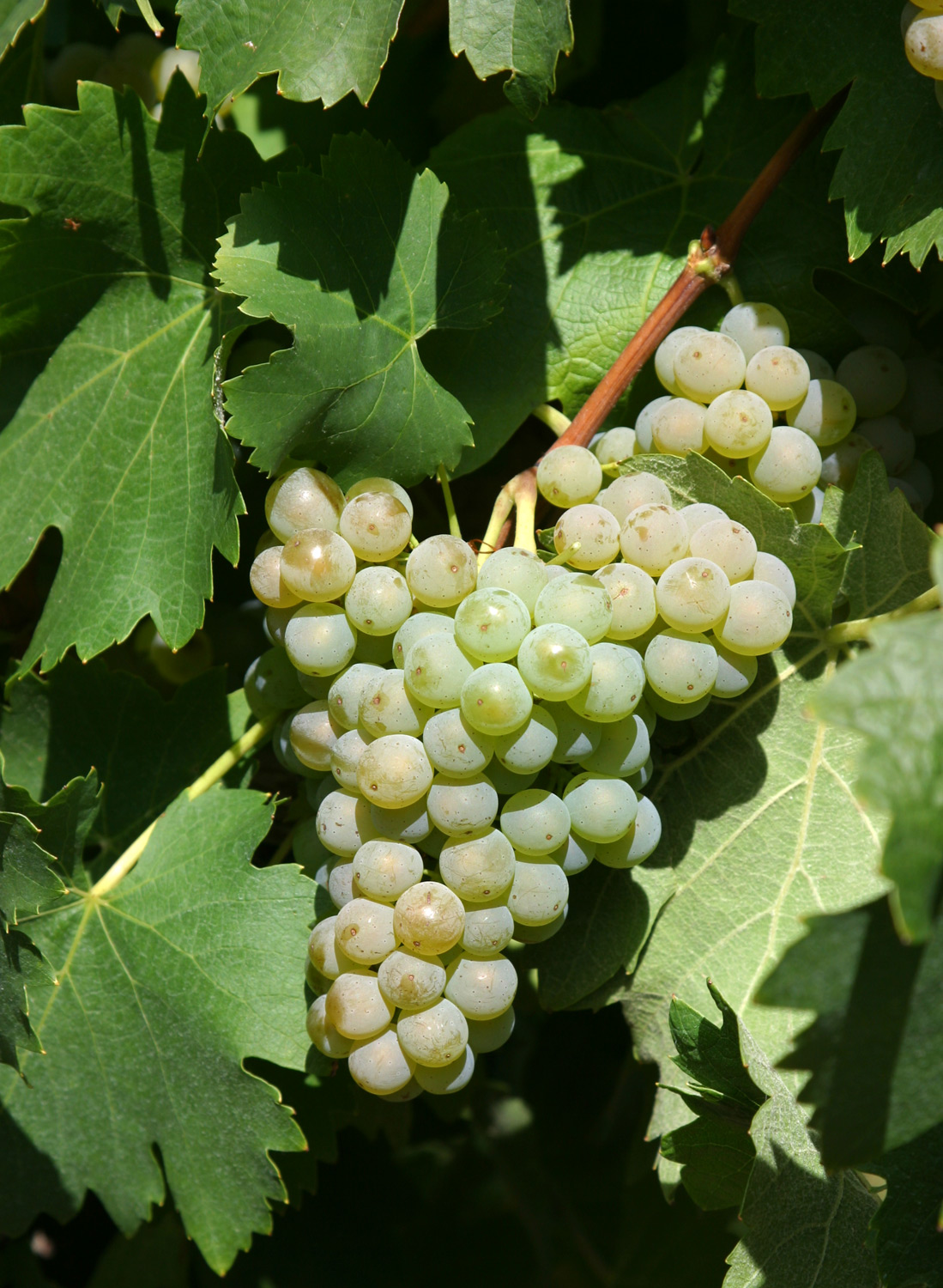 Leafs and grapes of the white grape variety Juwel.